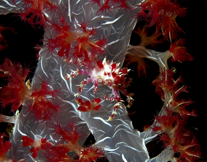 Soft coral crab (Hoplophrys oatesi), expert in camouflage from East Timor